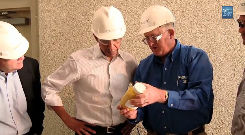 President Obama visits the POET Biorefining plant in Macon, Missouri from West Wing Week ep 05 Doing the Math